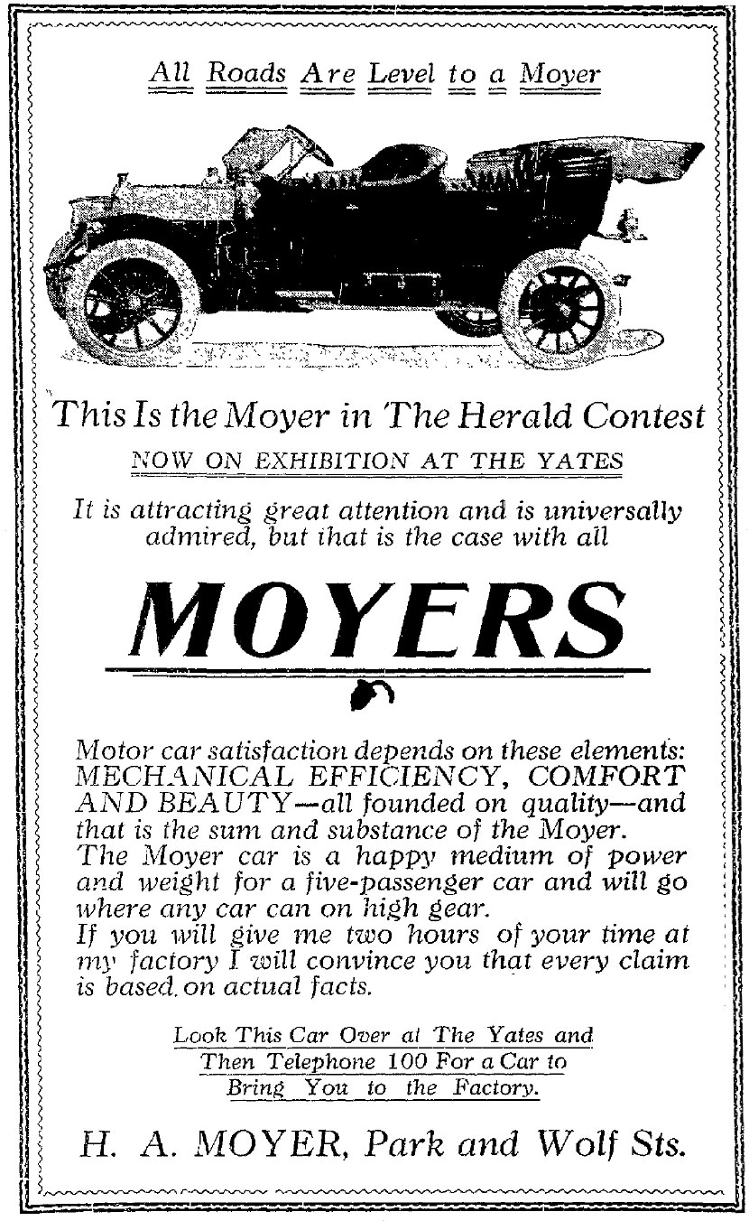 Moyer in a Herald contest